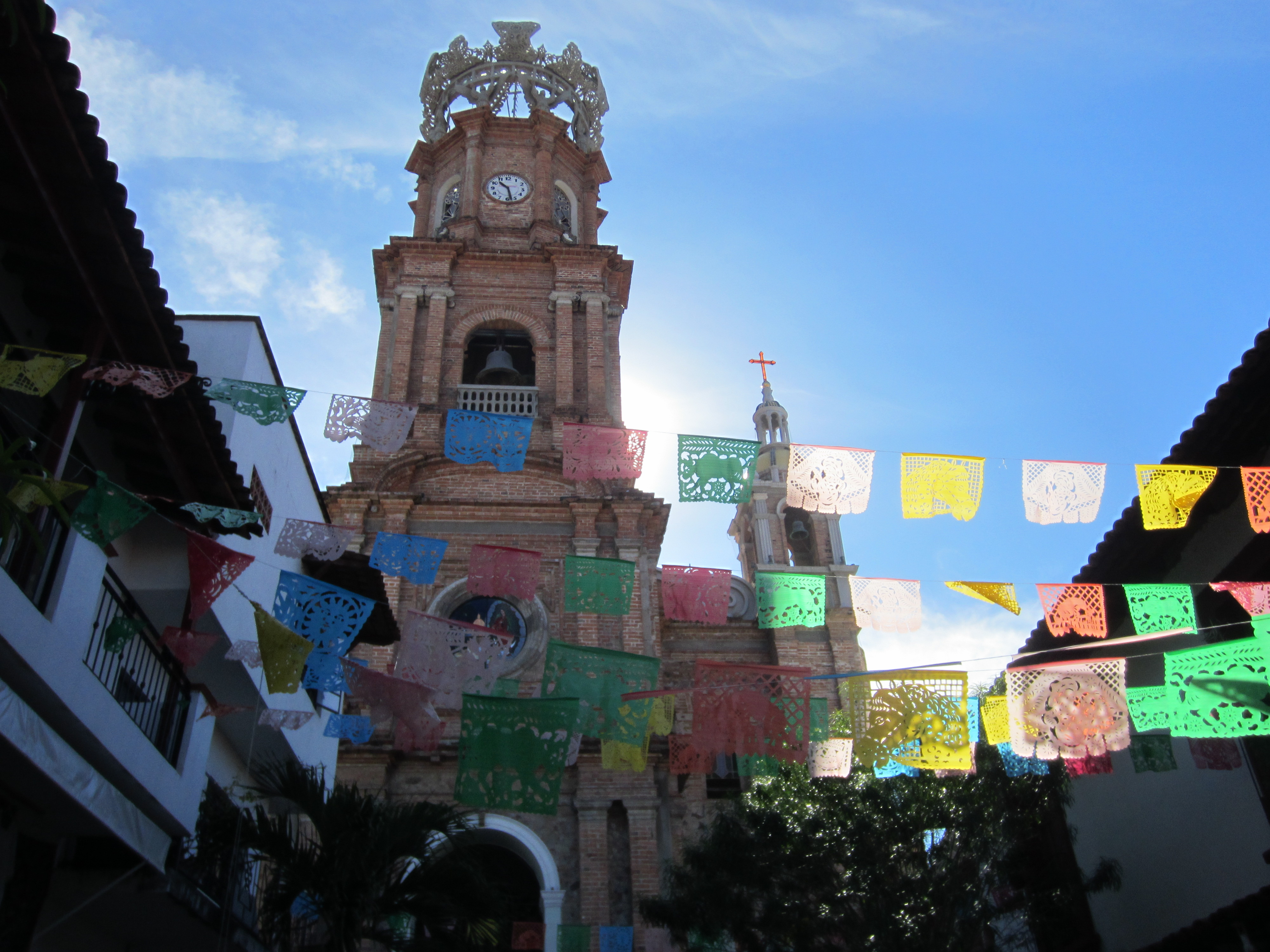 Church of Our Lady of Guadalupe, Puerto Vallarta (2014)